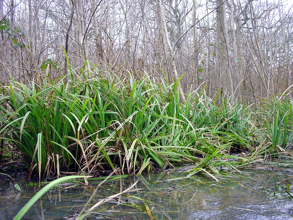 Landscape / Forest of "Rihoult-Clairmarais Forest" (north of France). We can see amphibians eggs on the right